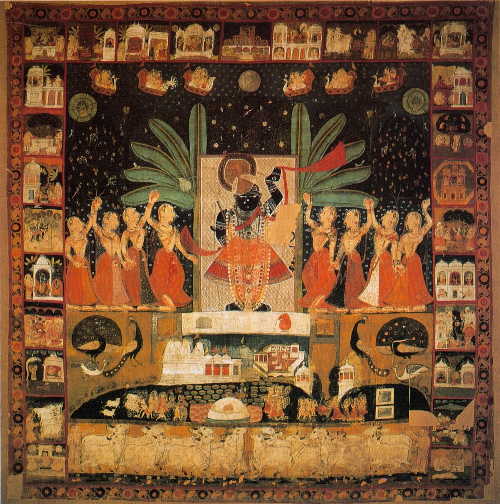 Krishna (Shrinathji) and the Dancing Gopis. Pichhavai from the Temple of Nathdvara, Rajasthan, 19 sent. Staatlische Museen, Berlin.